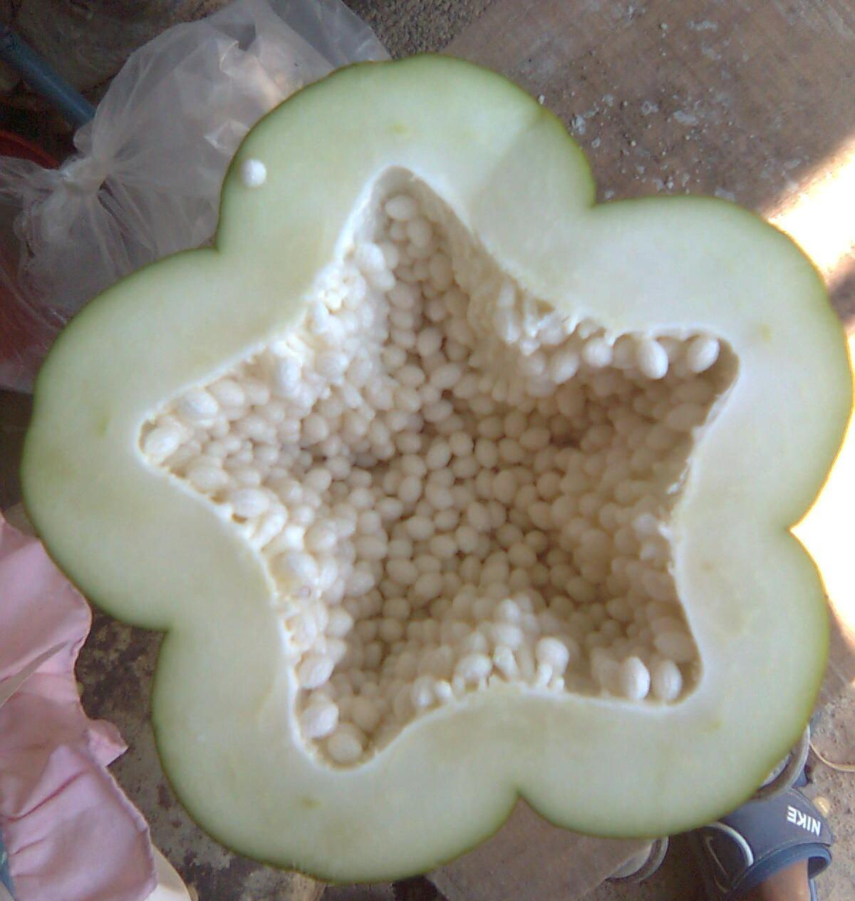 Cross section of fruit of Carica papaya